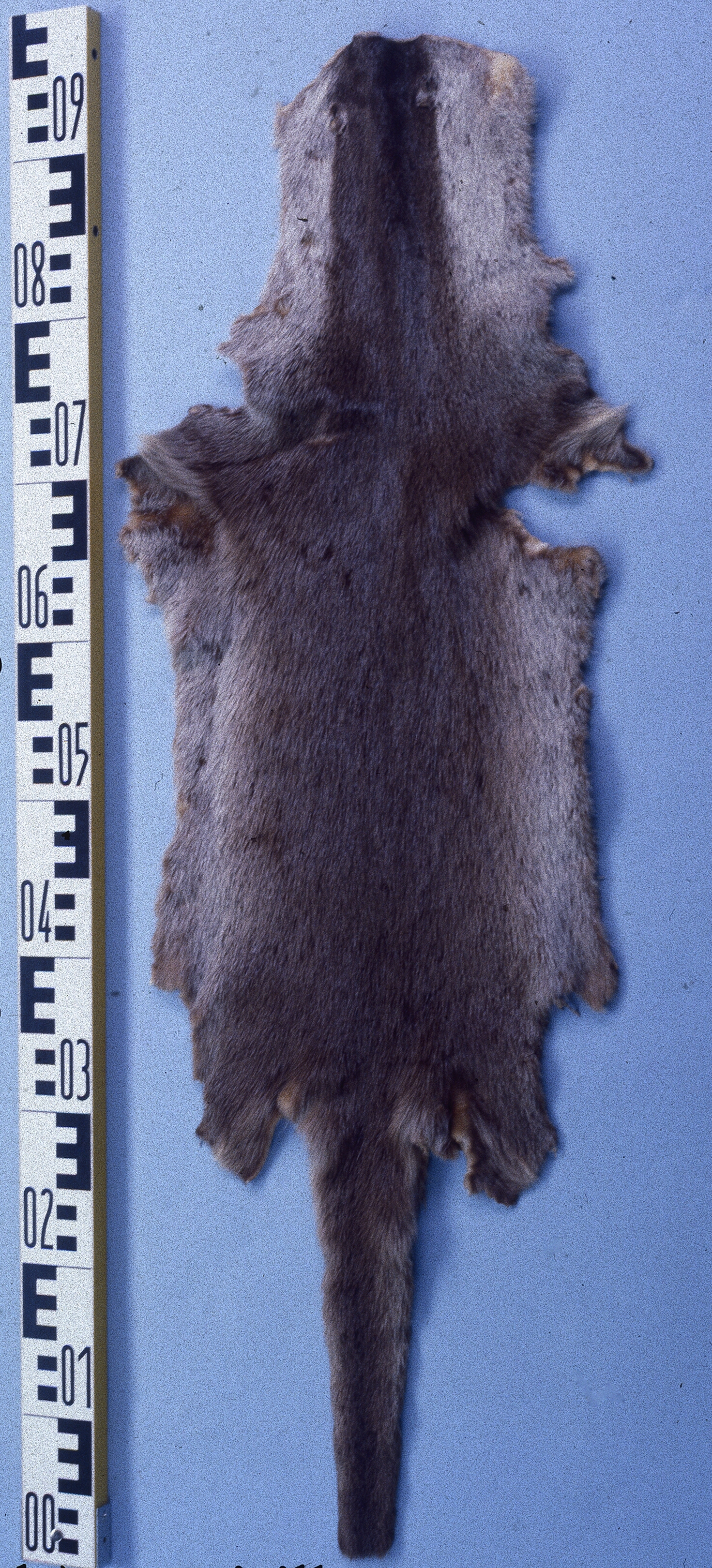 Indian smooth-coated otter fur skin(Lutra (Lutrogale) perspicillata). Fur skin collection, Bundes-Pelzfachschule, Frankfurt/Main, Germany